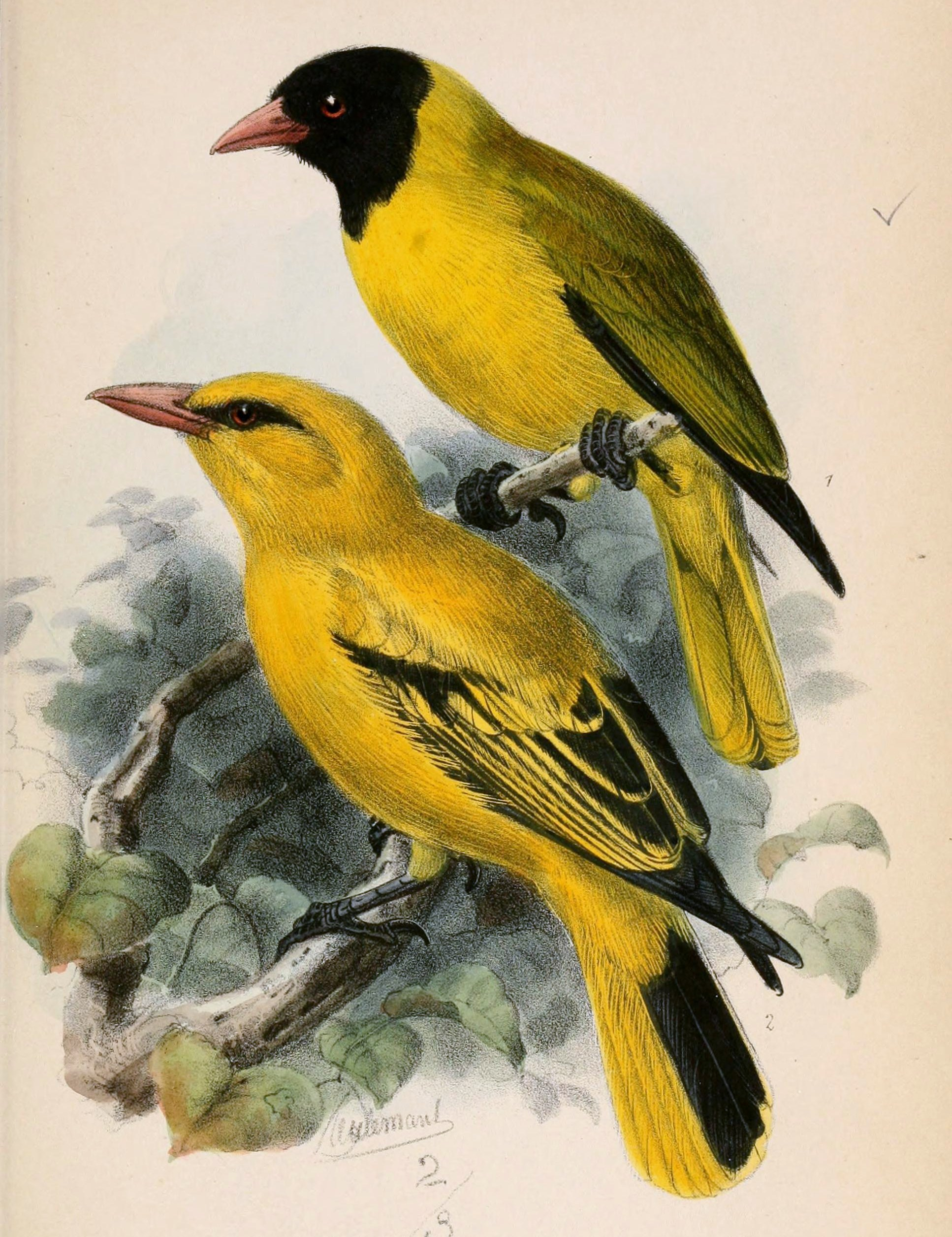 « Oriolus nigripennis » = Oriolus nigripennis (Black-winged Oriole) « Oriolus notatus » = Oriolus auratus notatus (Subspecies of African Golden Oriole)